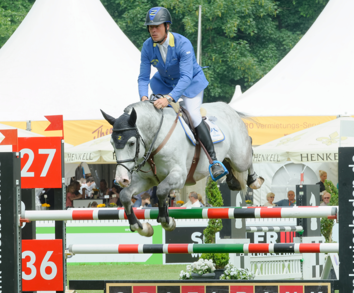 CSIYH* int. Springprüfung nach Strafpunkten und Zeit Internationales Pfingstturnier Wiesbaden 2015 The making of this document was supported by the Community-Budget of Wikimedia Germany.